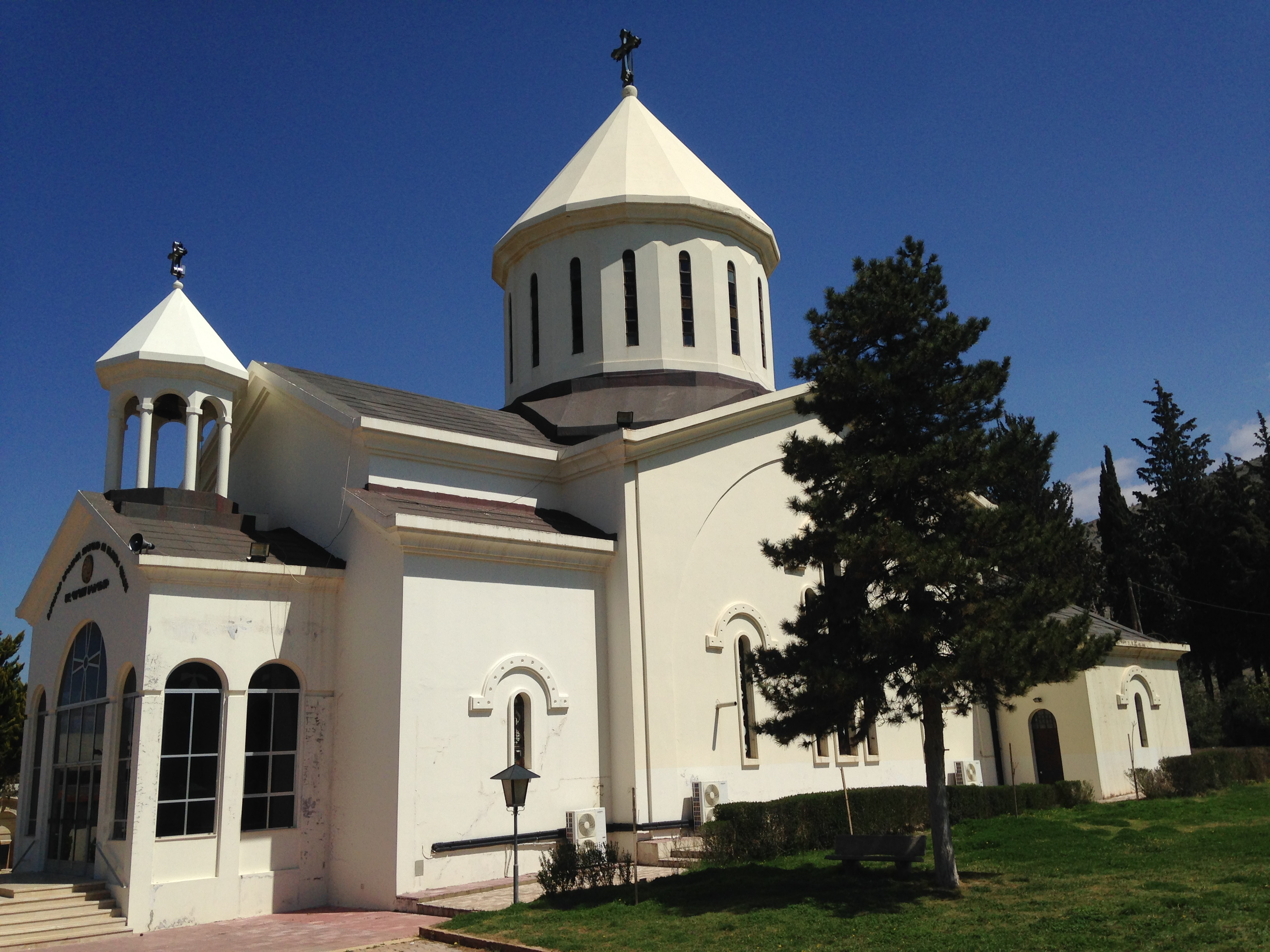 Armenian Apostolic St. Paul Church in the Armenien-populated village of Anjar, Lebanon.